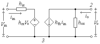 Generalised h-parameter model of an NPN BJT.